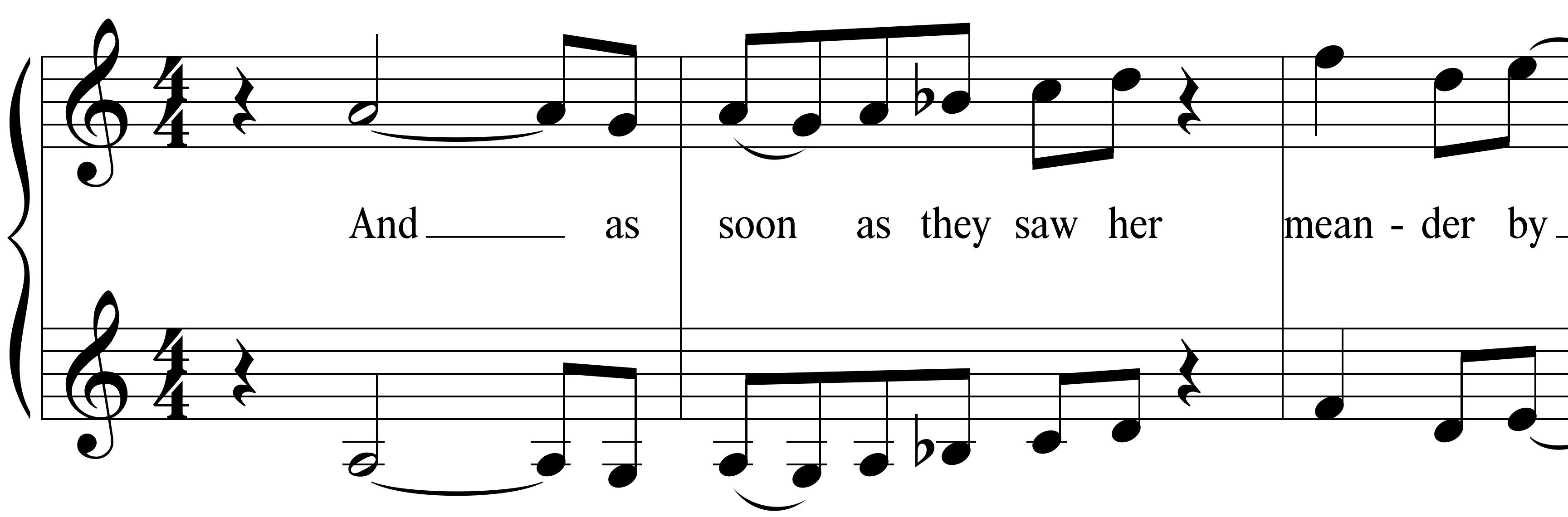 Extrait de la pièce XVIII d'Anna Livia Plurabelle d'André Hodeir